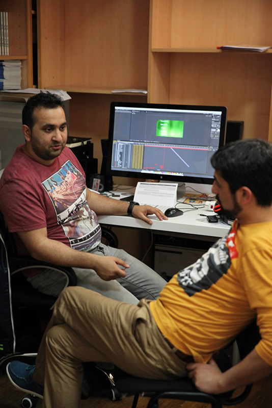 Khazar Film & Animation School